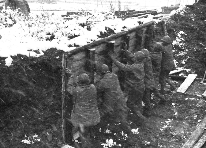 CONSTRUCTING A WINTERIZED SQUAD HUT NEAR THE FRONT LINES